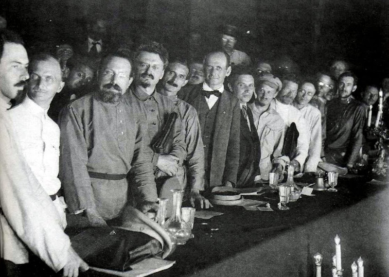 Delegates of the Second Congress of the Communist International. Leon Trotsky is the fourth from the left, before him is Giacinto Serrati (Italy), behind him are Alfred Rosmer (France), Paul Levi (Germany), Grigory Zinoviev, Nikolai Bukharin, Mikhail Kalinin. Moscow, 1920.